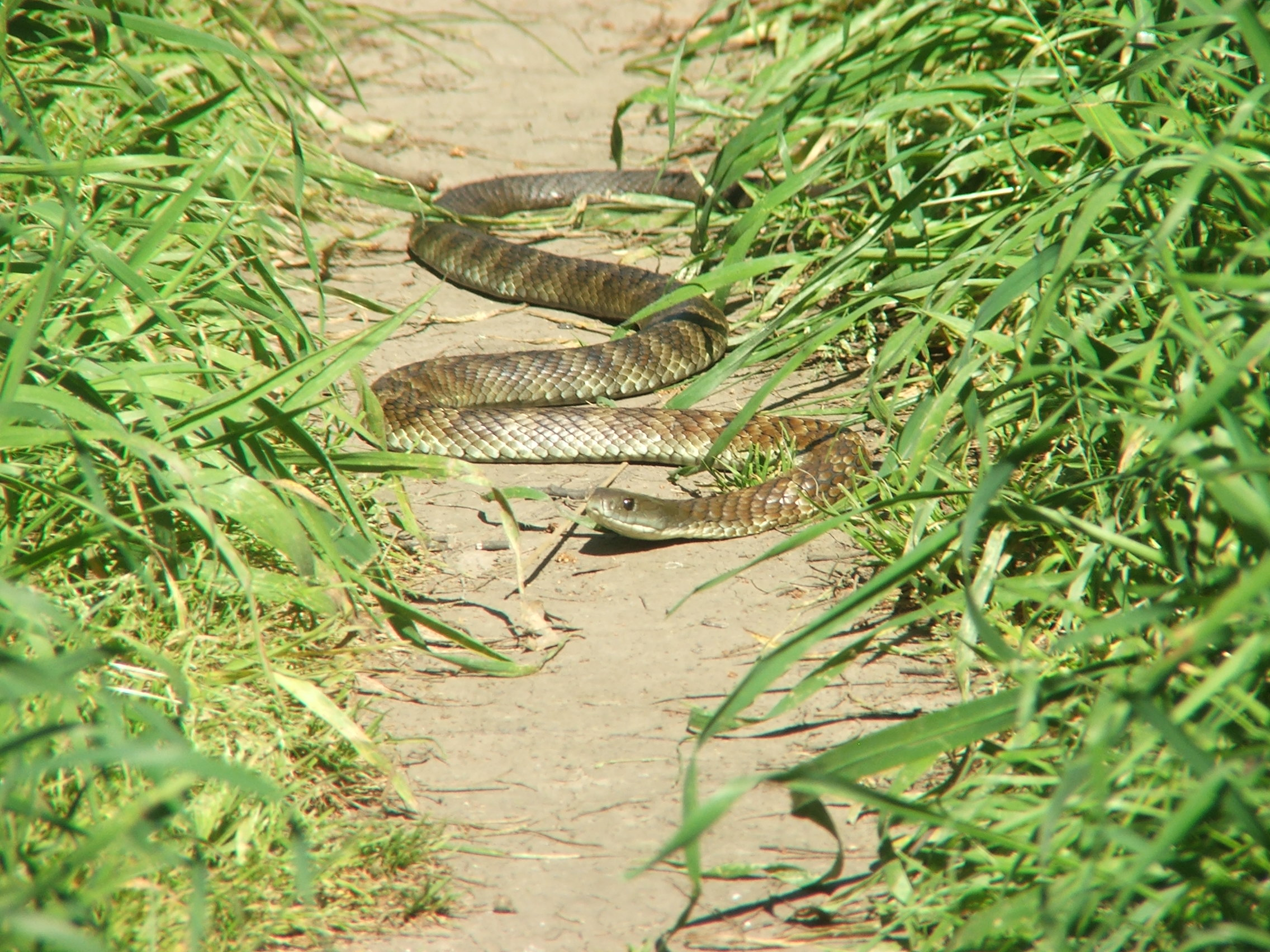 Mainland Tiger snake in parklands near Melbourne, Victoria. The snake is in threat pose, its body flattened, its head raised, indicating it is prepared to strike.